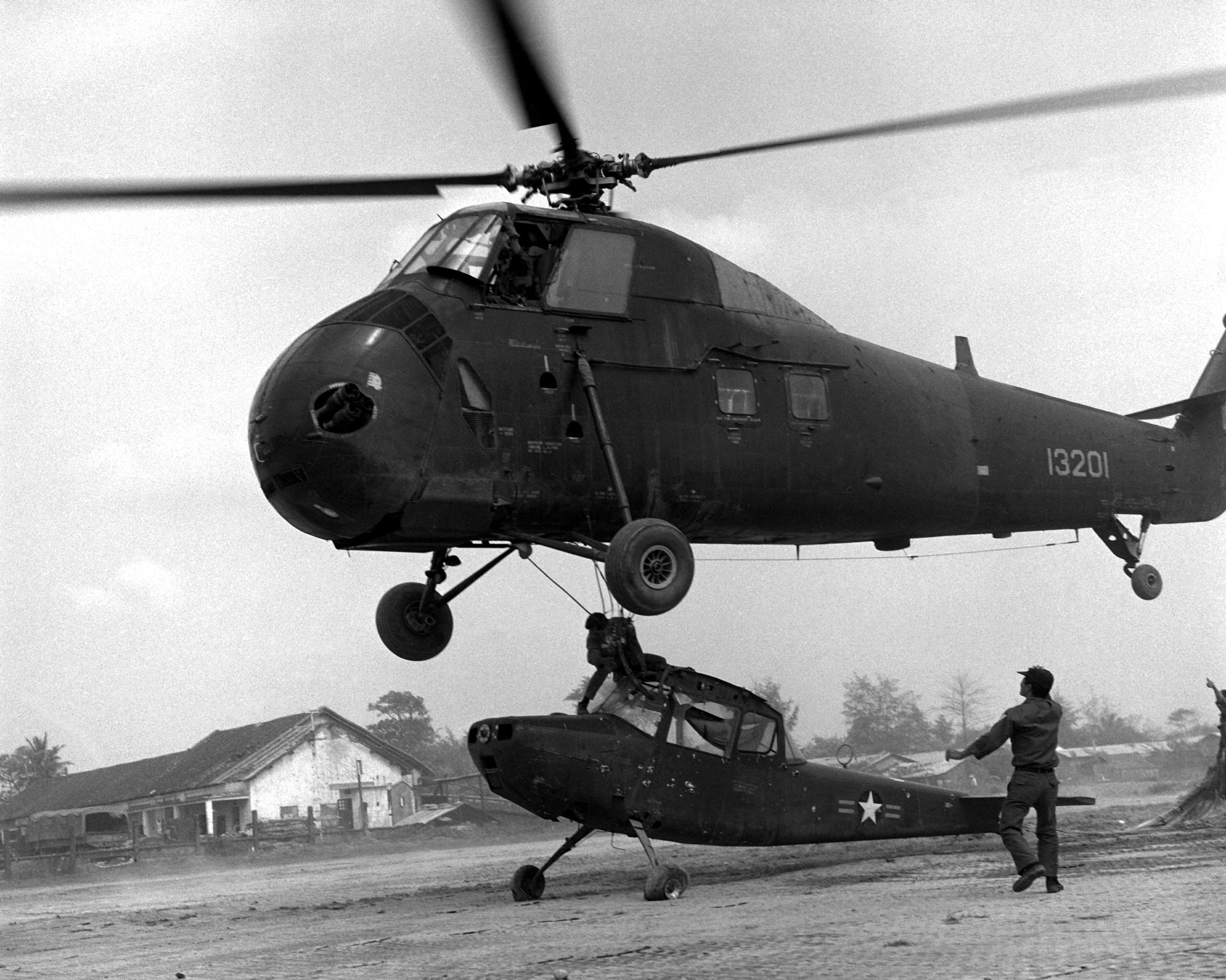 A South Vietnamese Air Force Sikorsky CH-34C Choctaw (US Army s/n 63-13201) lifting a VNAF Cessna O-1 Bird Dog in 1968.